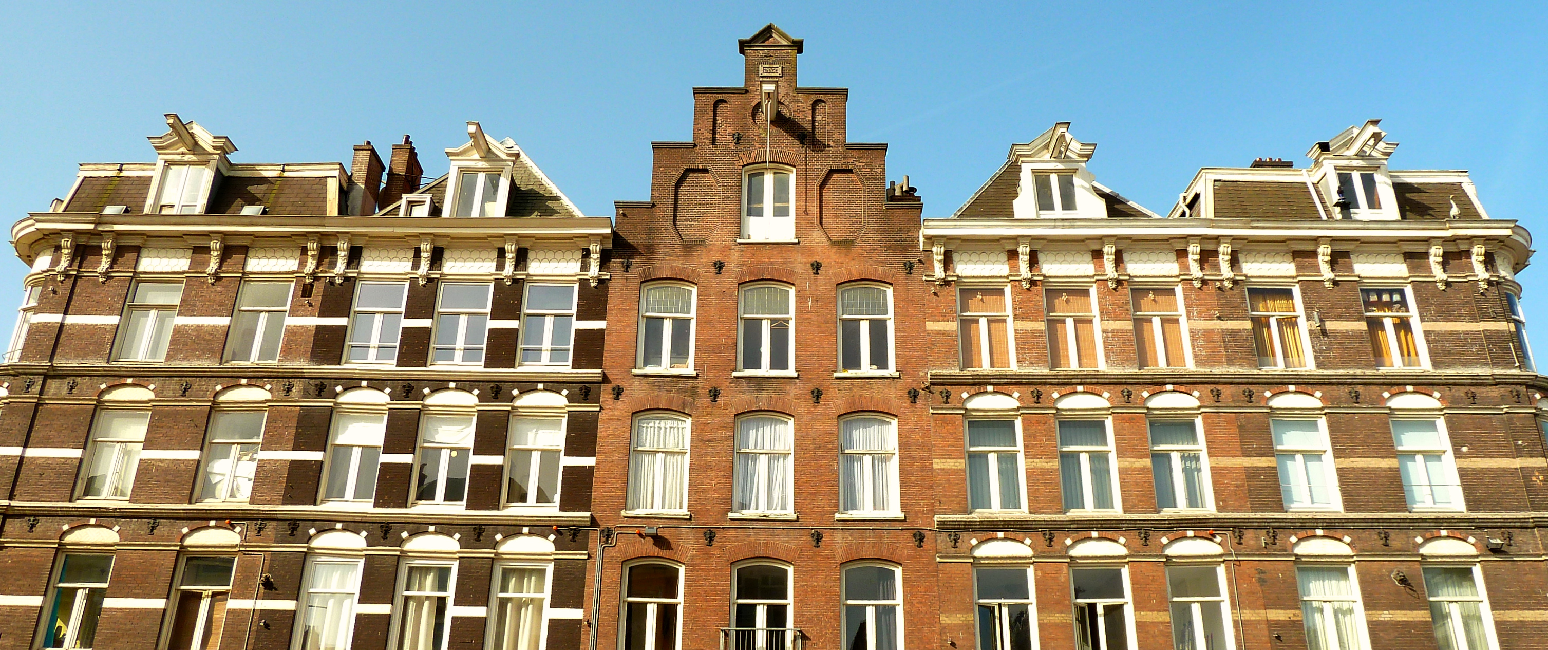 The west side of Ferdinand Bolstraat, Amsterdam, Netherlands, between Albert Cuypstraat and Govert Flinckstraat